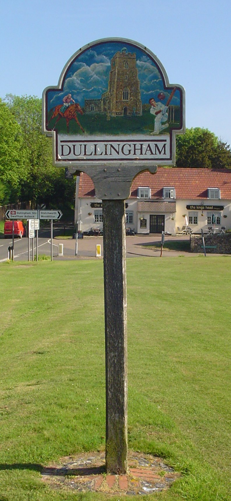 Signpost in Dullingham